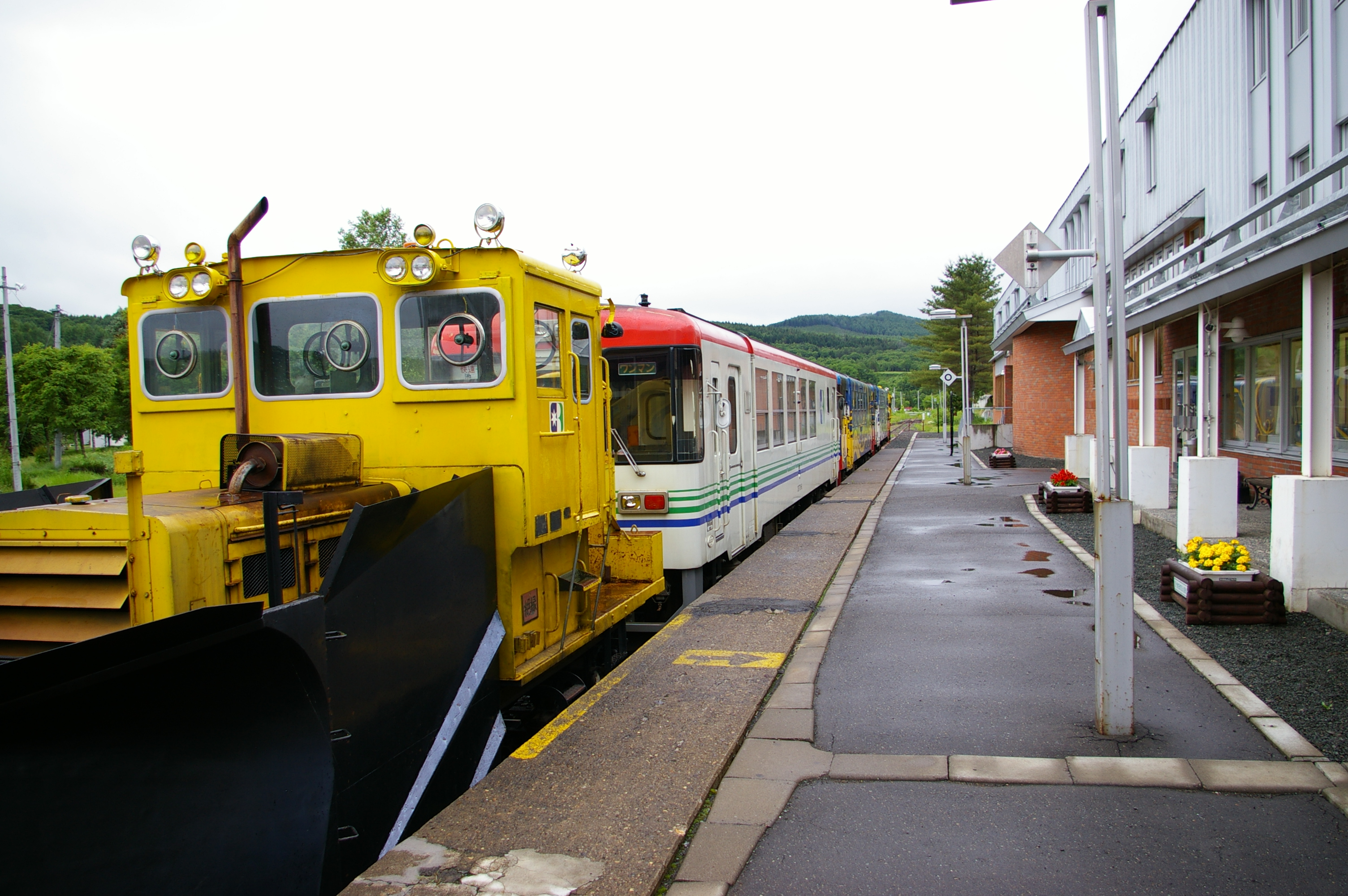 Train Snowblower in former Rikubetsu Station, stationary but assembled properly and maintained ready to work